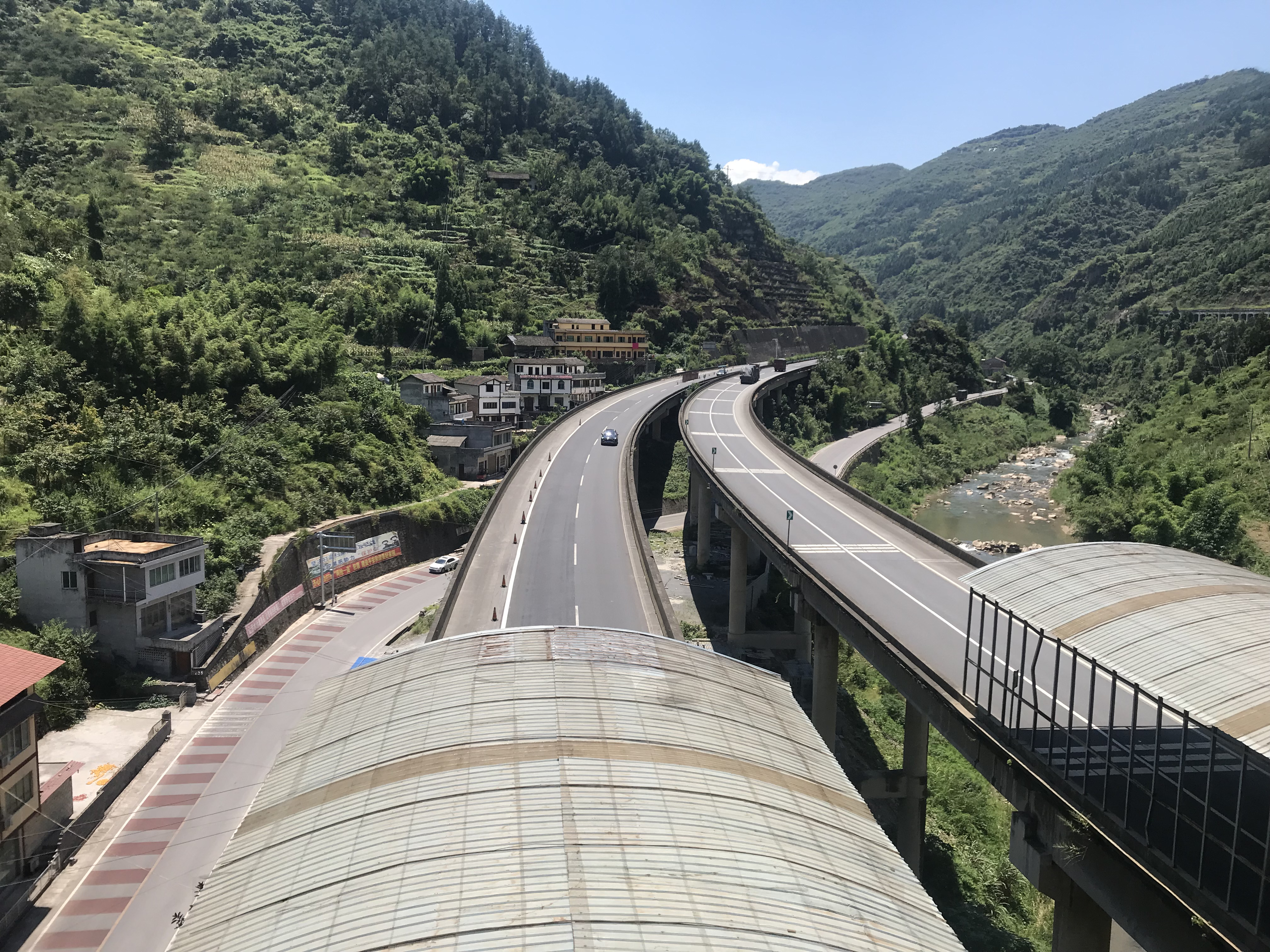 201908 G75 Lanhai Expressway under Sichuan-Guizhou Railway in Taibai